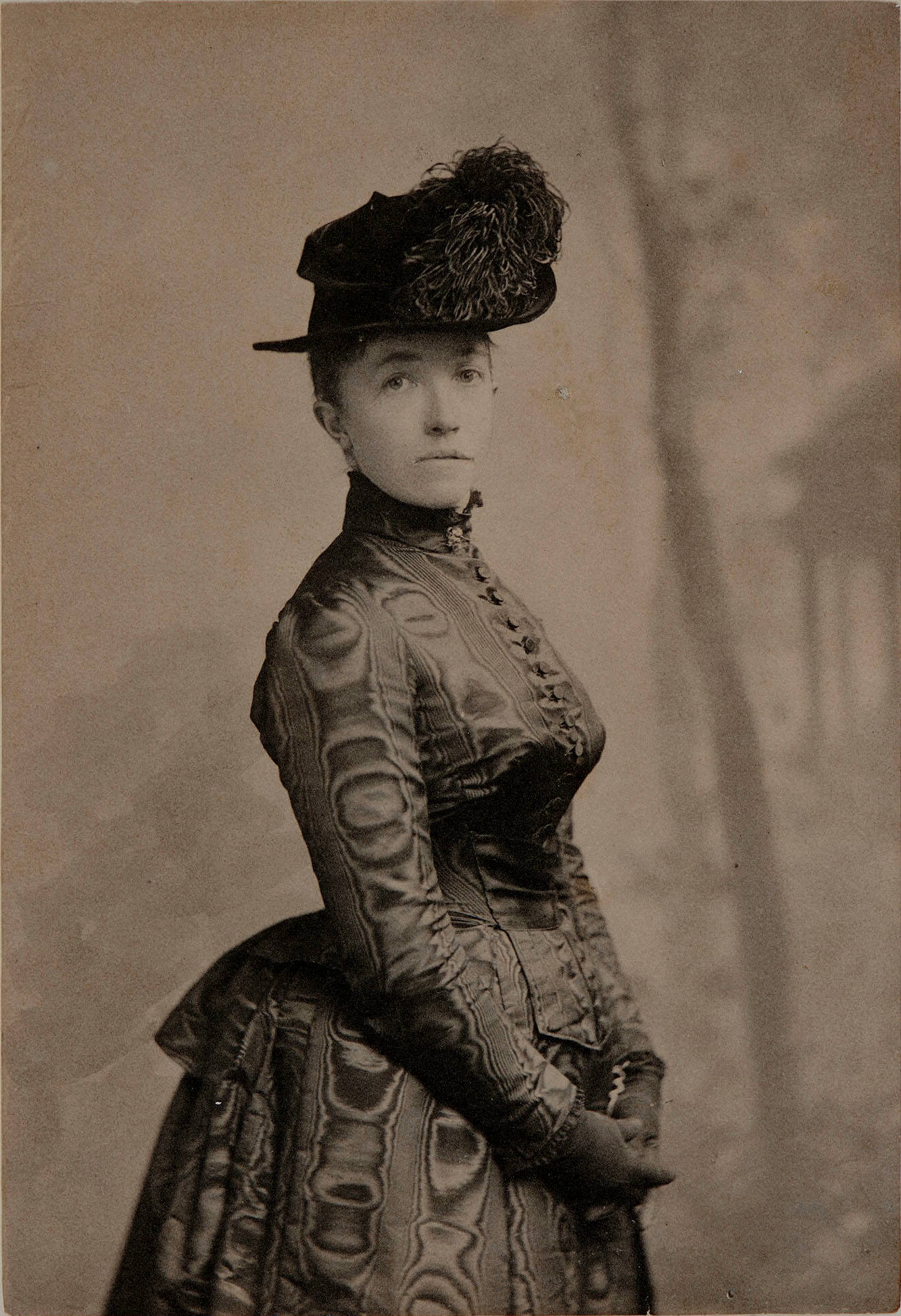 Photograph of Isabella Stewart Gardner in 1888